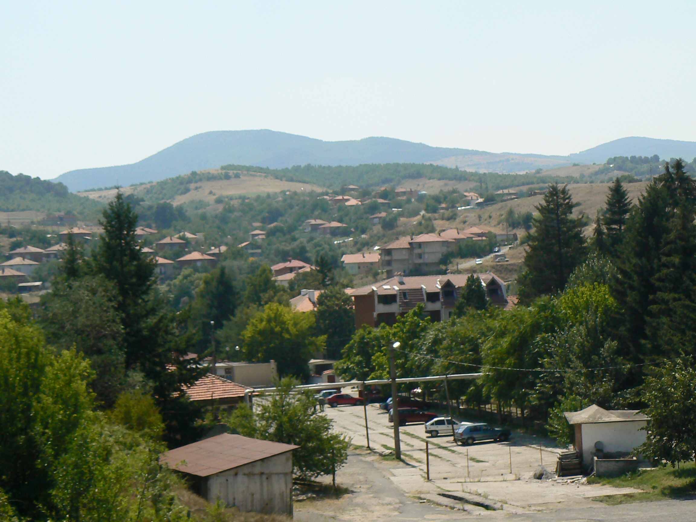 Village Chernoochene, Bulgaria